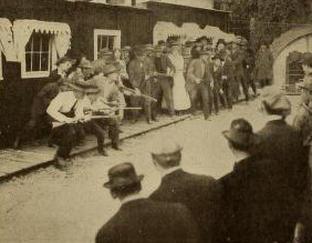 The final riot scene from the 1915 film, The Absentee.